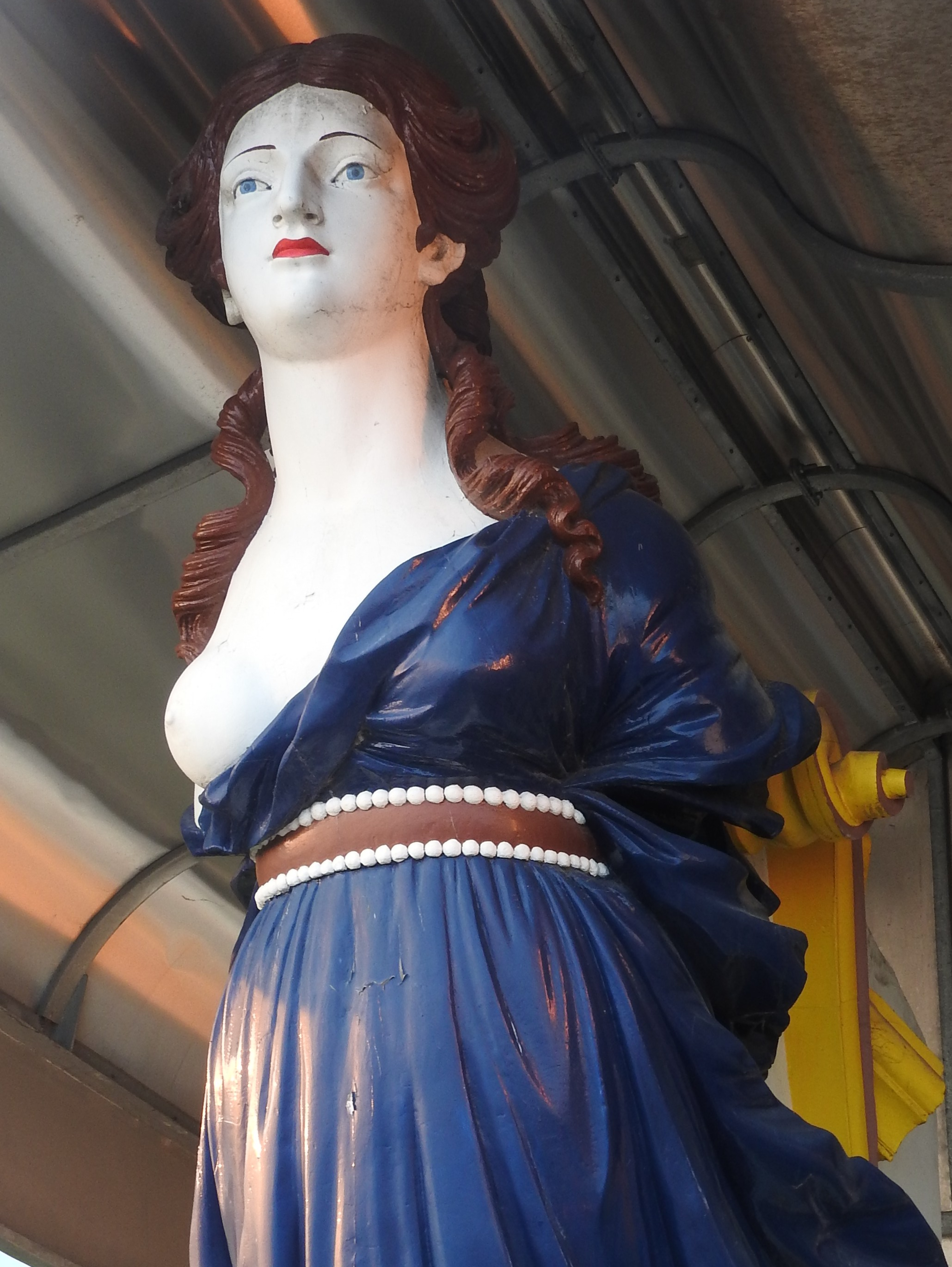 The Arethusa Venture Centre at Lower Upnor, the figurehead from HMS Arethusa (1849)